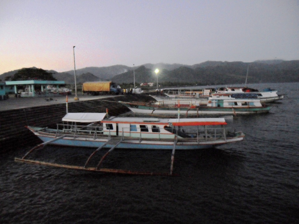 San Jose Port achorage area.